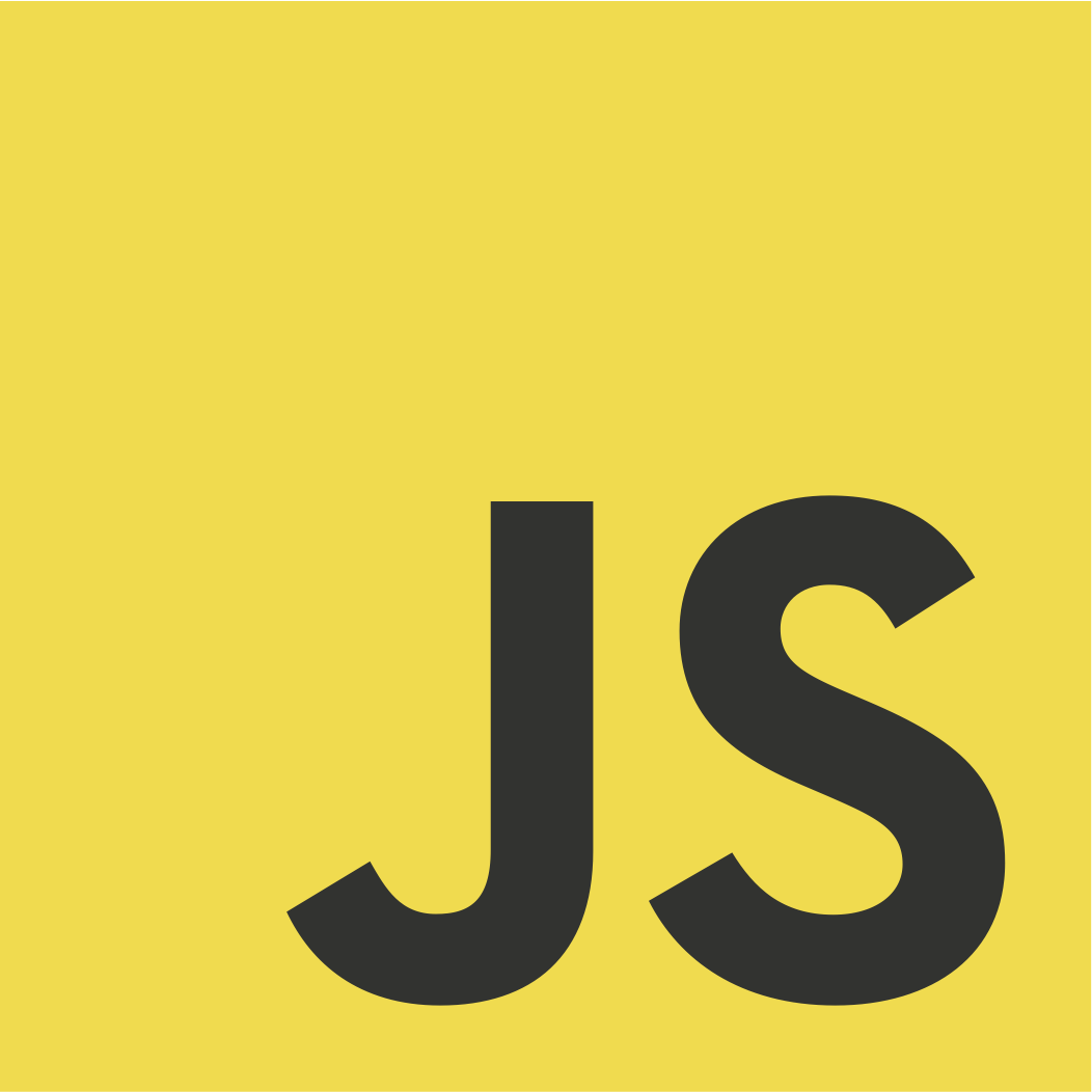 Unofficial JavaScript logo by Chris Williams, from GitHub logo.js, under very permissive licensing (WTFPL).